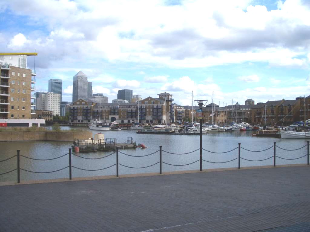 The Limehouse Basin, photo by Salimfadhley